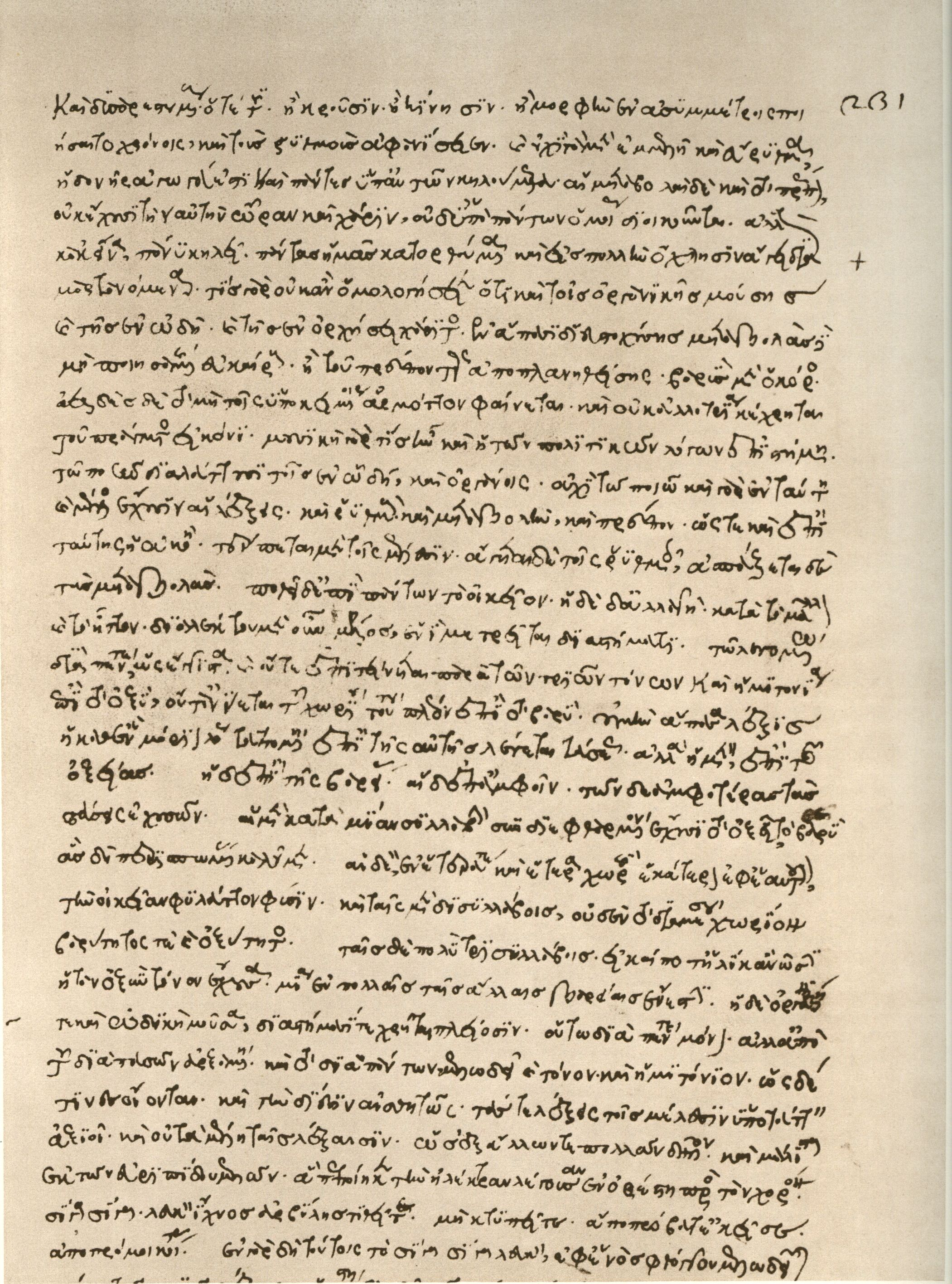 Dionysius of Halicarnassus, De compositione verborum in ms. Biblioteca Apostolica Vaticana, Vaticanus graecus 64, fol. 231r.